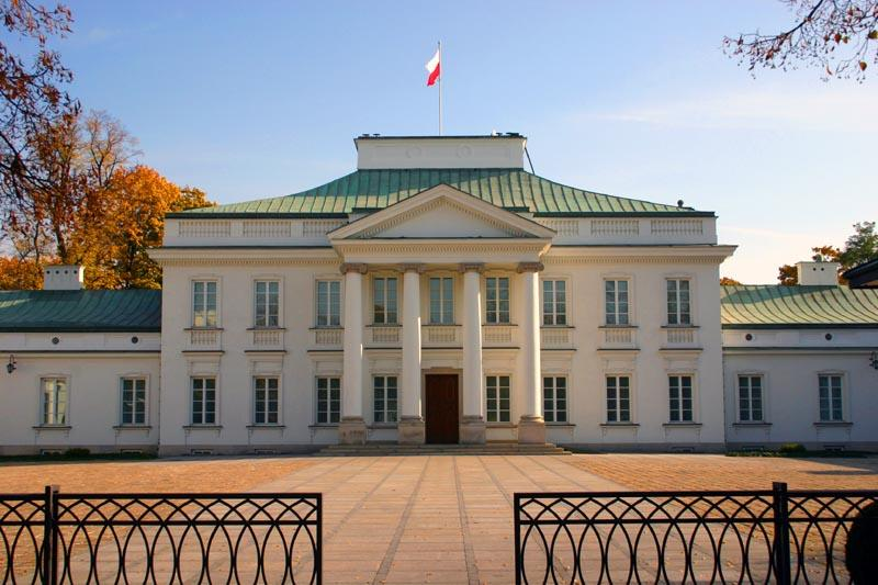 The Belweder Palace in Warsaw